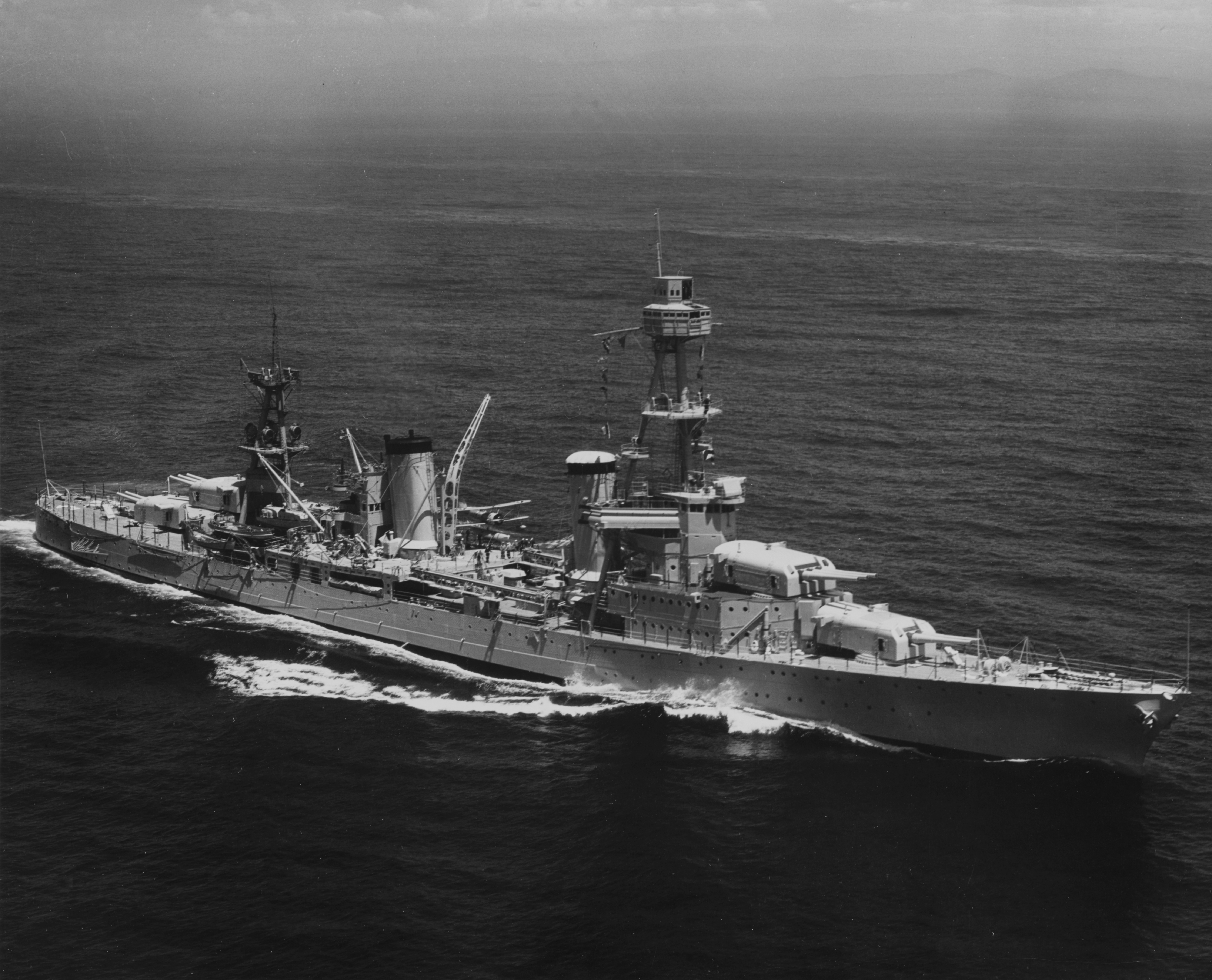 The U.S. Navy heavy cruiser USS Pensacola (CA-24) underway at sea in September 1935.